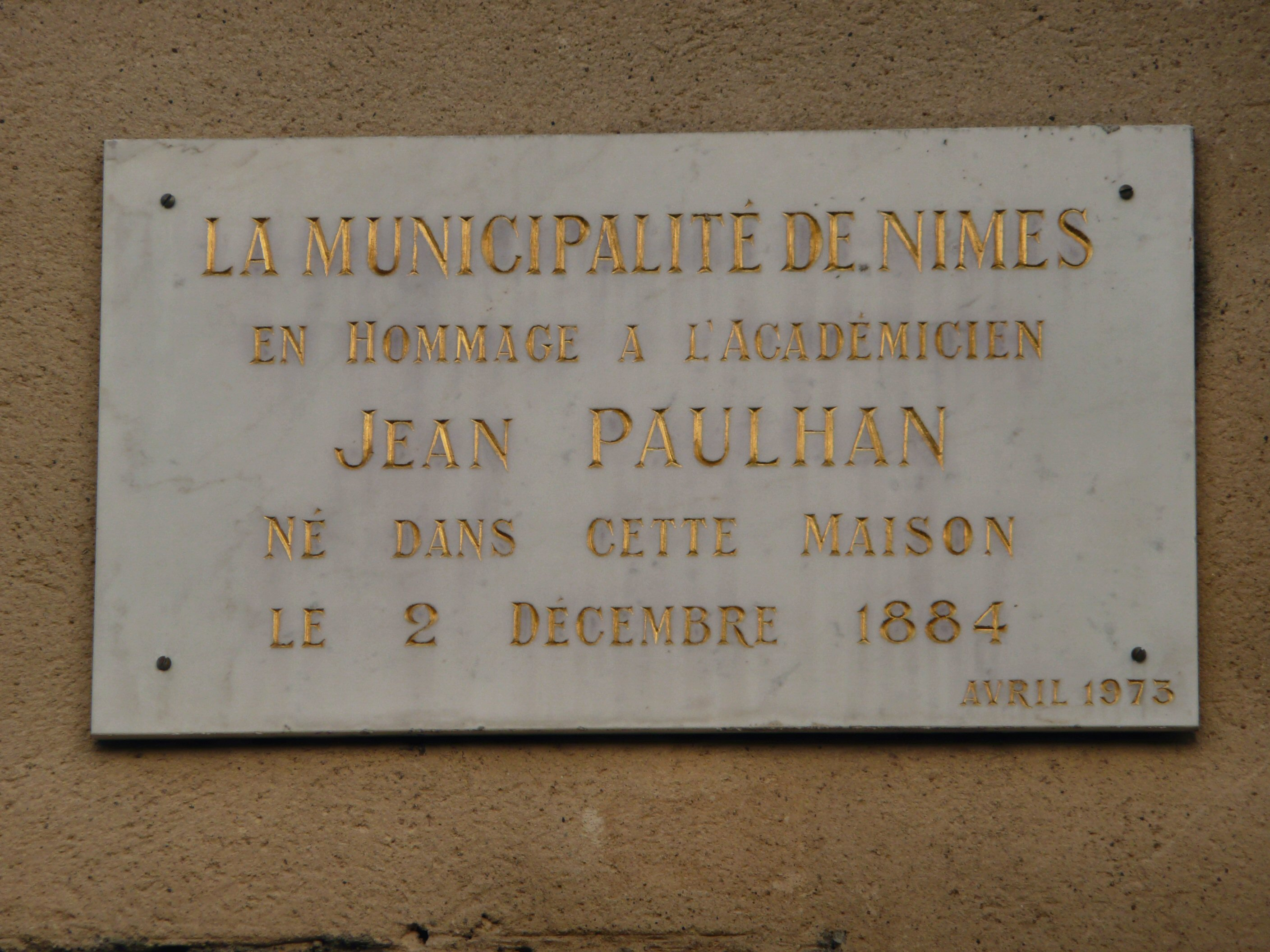 Plaque at the birth house of Jean Paulhan, Nîmes